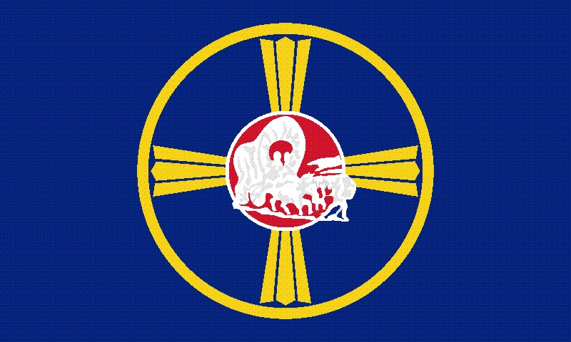 Flag of Omaha, Nebraska